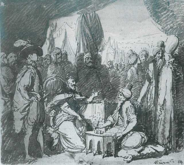 "Peace Talks at Chocim, 1621"